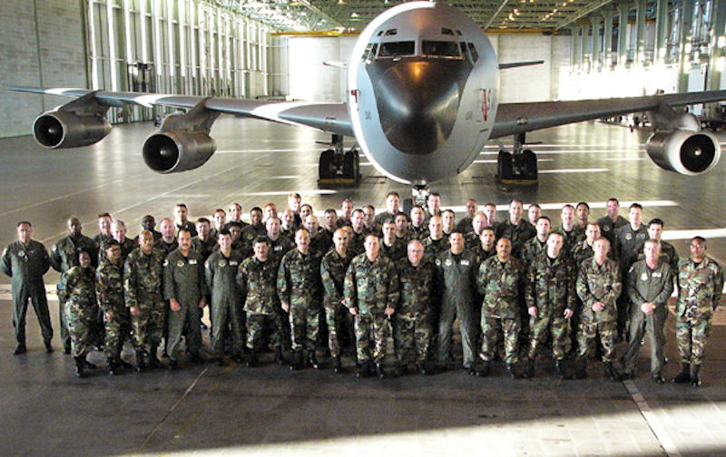 The 108th ARW December the 108th Air Refueling Wing had the honor of flying the last operational mission in Operation Joint Forge. Wing members from the 108th deployed, under Operation Joint Forge, to Istres Air Base, France to assist in the base closure and the relocation of assets and personnel.